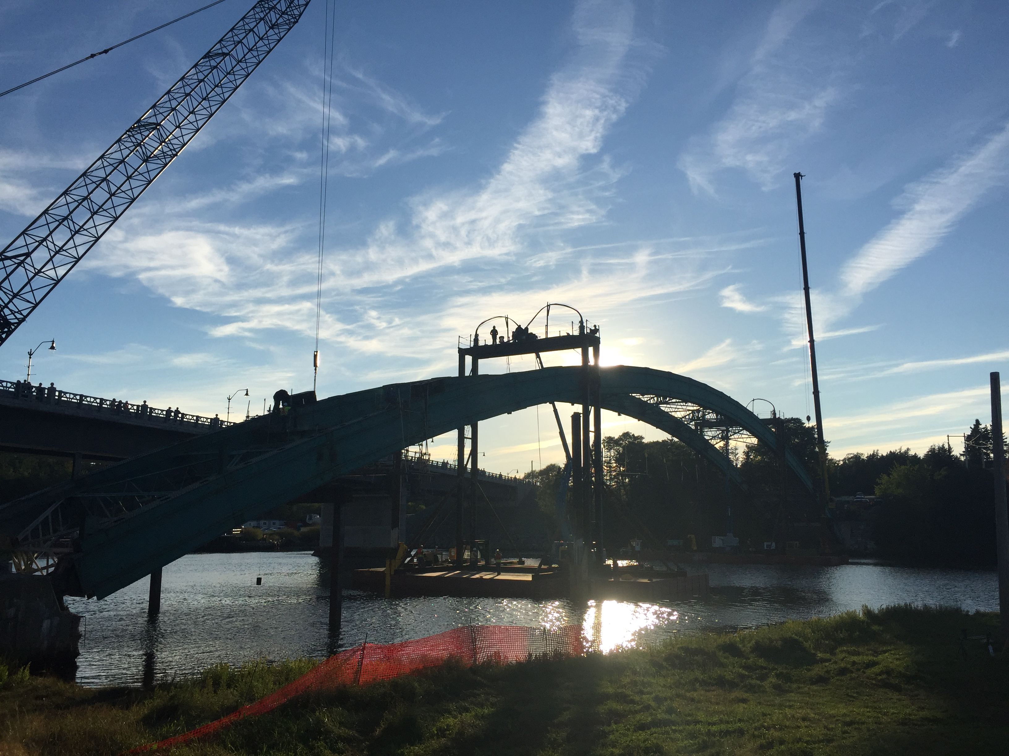 The East River Bridge before its demolition.